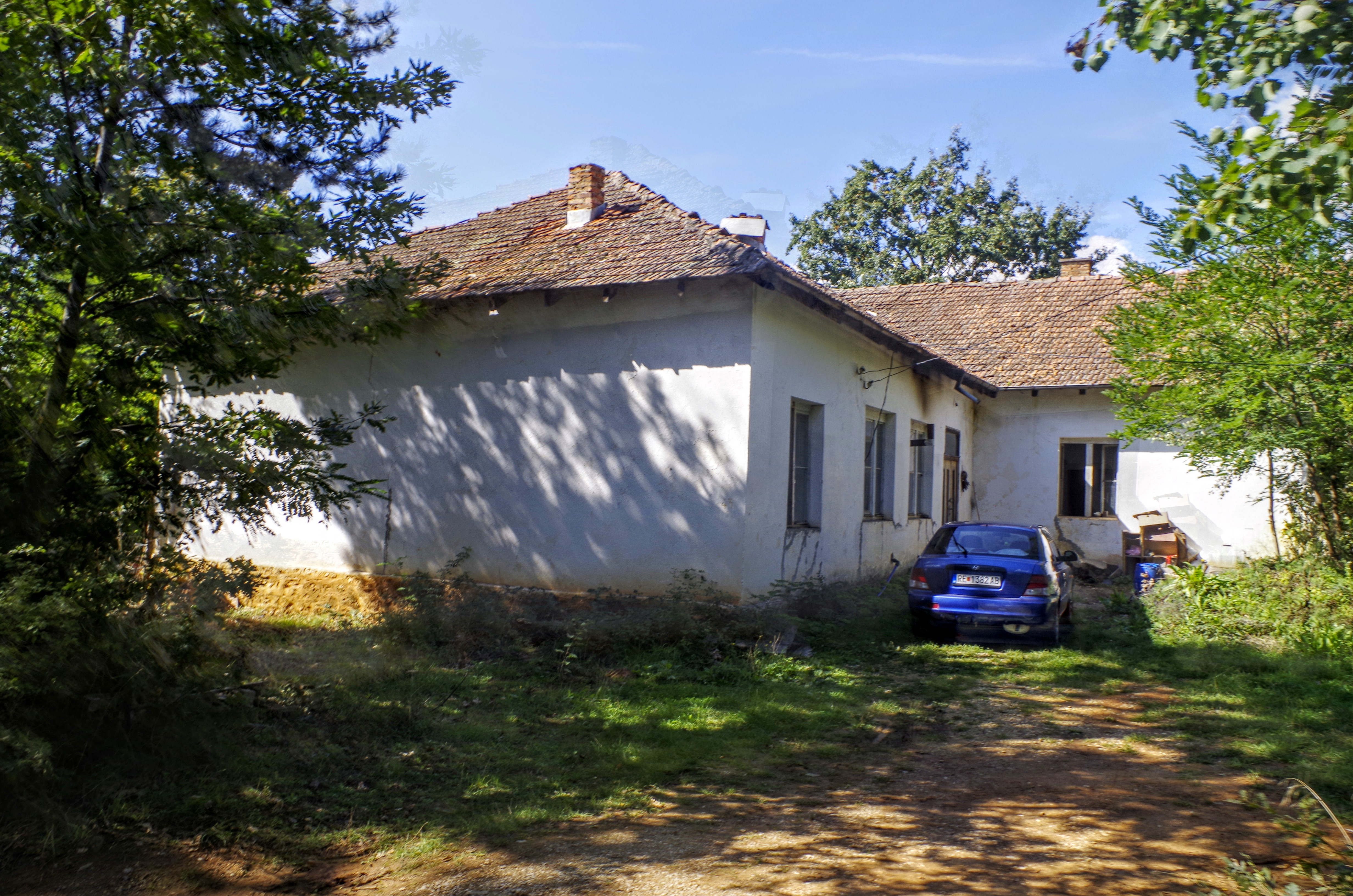 View of old primary school in the village Pokrvenik